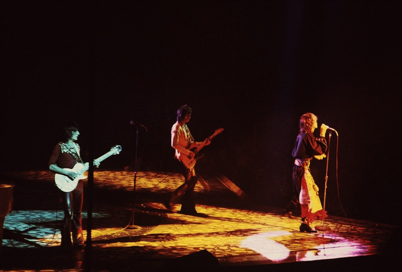 Rolling Stones 7/23/1975